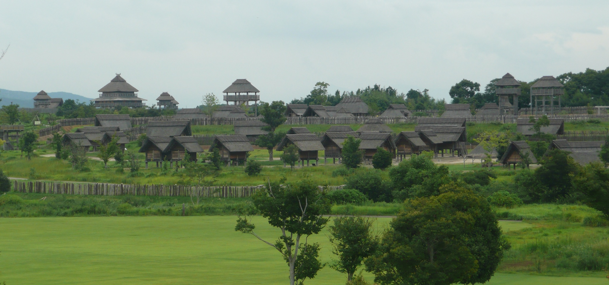 Yoshinogari Ancient Ruins